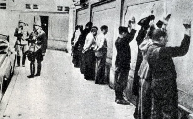 Bydgoszcz – September 1939. Polish civilians guarded by Wehrmacht soldiers. Photo taken at the prison wall at Wały Jagiellońskie 4 street.